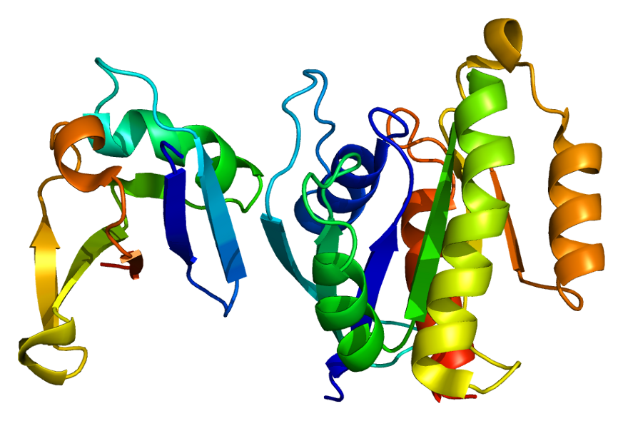 Structure of the RAP1A protein. Based on PyMOL rendering of PDB 1c1y.